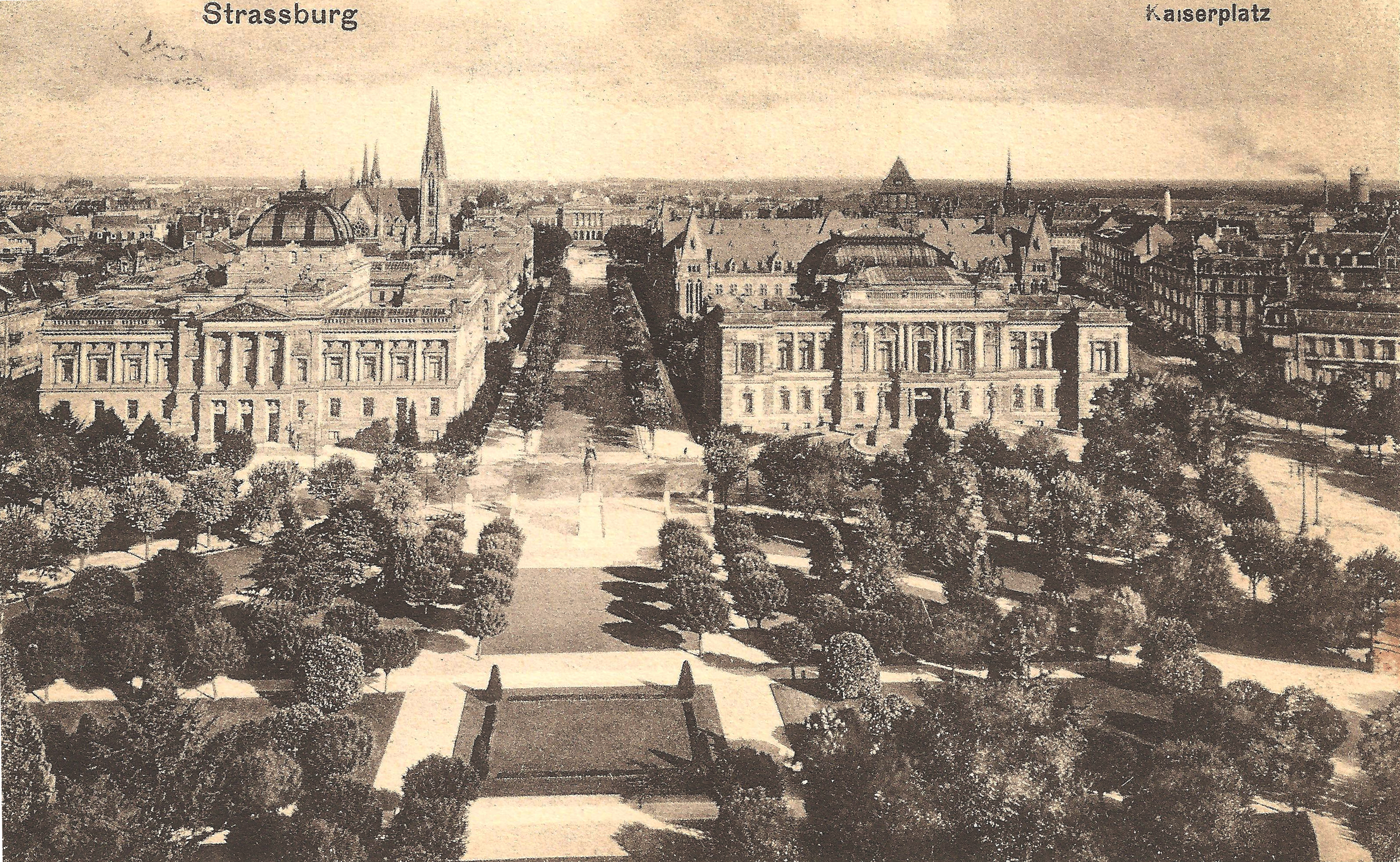 Place de la République and Avenue de la Liberté (Strasbourg) around 1910 (postcard)